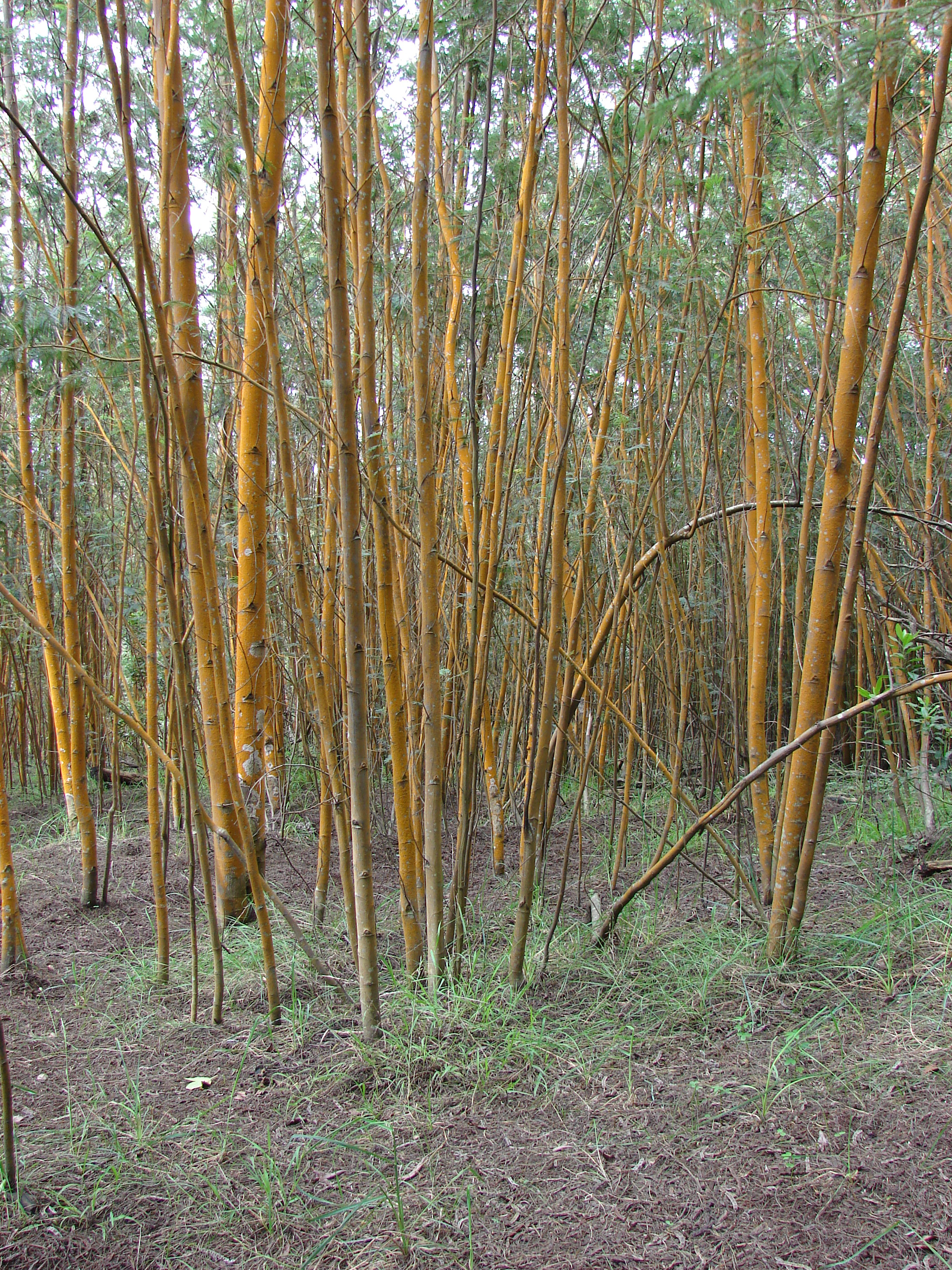 Acacia mearnsii (dense stand with orange lichen). Location: Maui, Polipoli